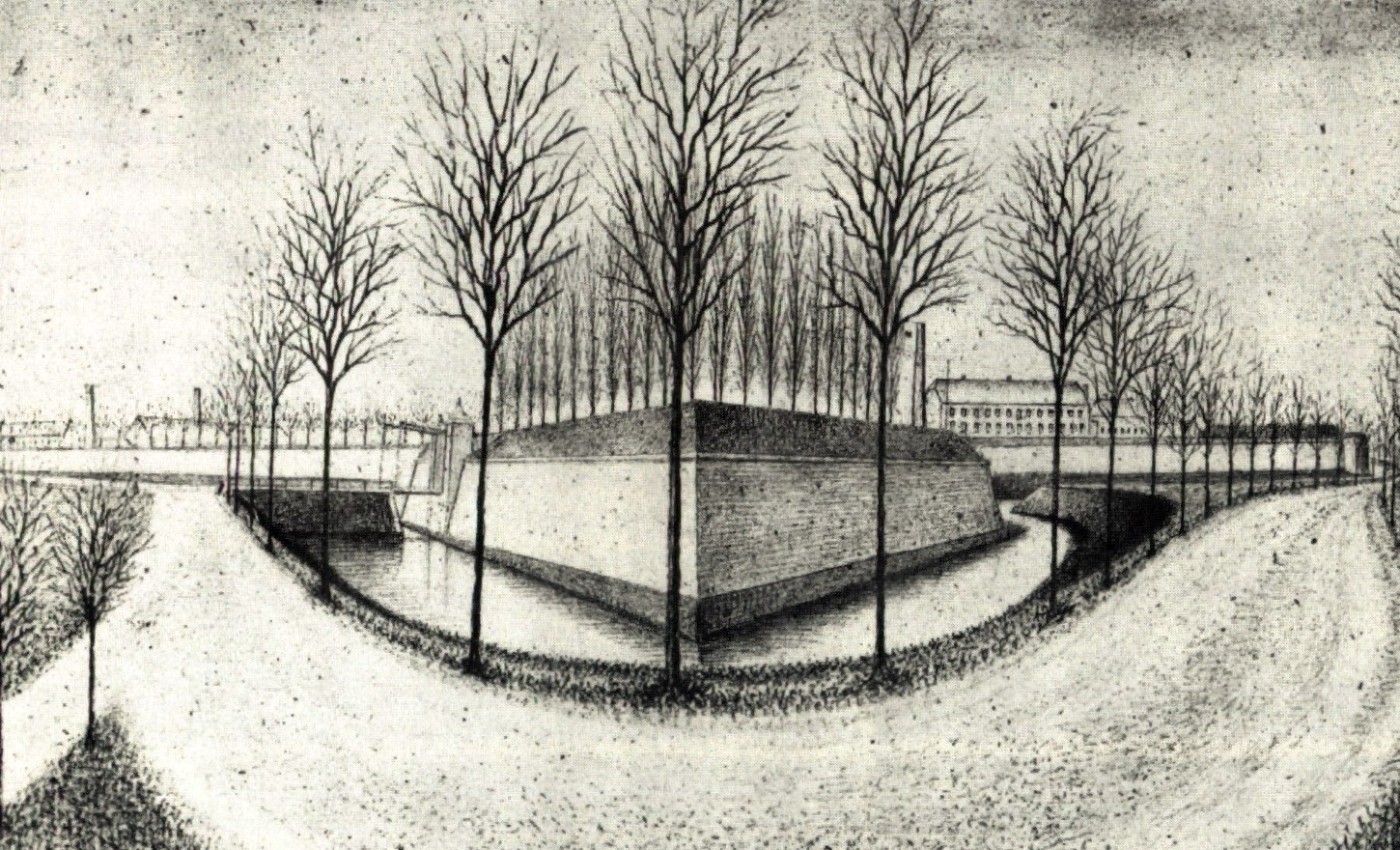 View of the ravelin near Boschpoort, the northern city gate of Maastricht. Drawing by Jan Brabant ((1806-1886).